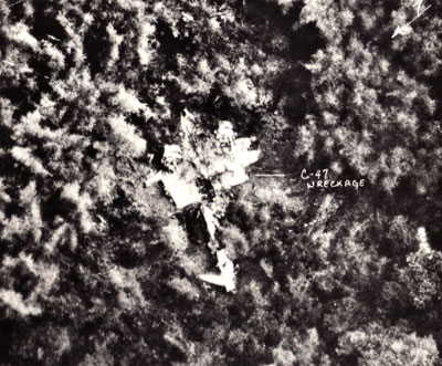 Aerial reconnaissance photo of the Baron 52 crash site in Salavan Province, Laos, 1973. The fuselage lays upside down and both wings were severed.